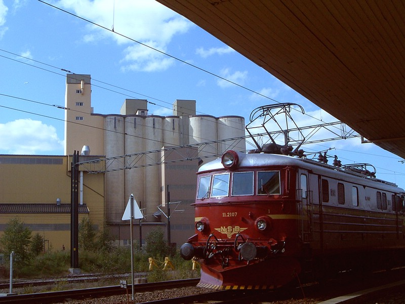 El. 11 locomotive parked in Eidsvoll, Norway